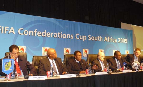 Parliament reflected on the Thames at night. (ATR / Panasonic: Lumix)